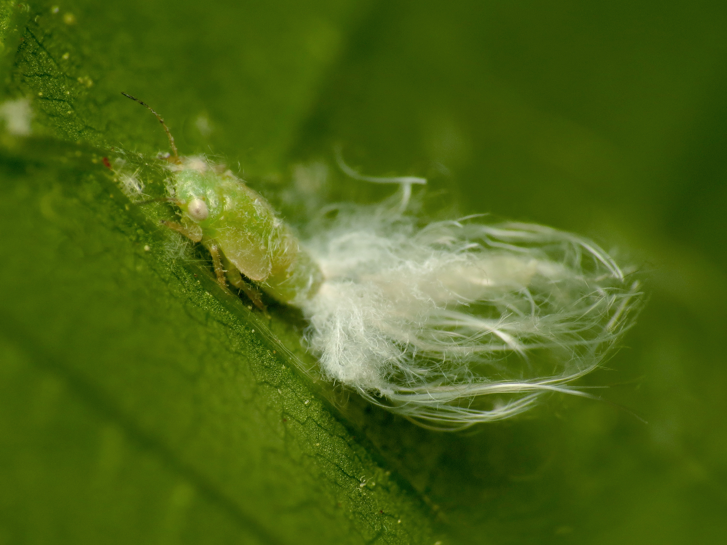 Psylla carpinicola on Carpinus caroliniana. Rock Creek Park, Washington, DC, USA.